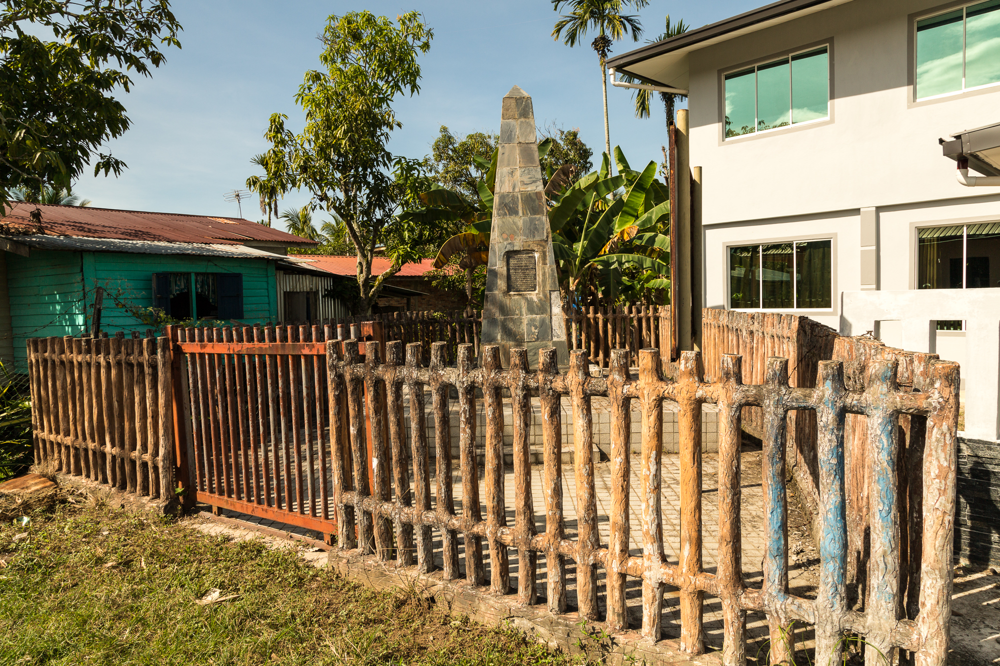 Kawang, Sabah: De Fontaine Memorial